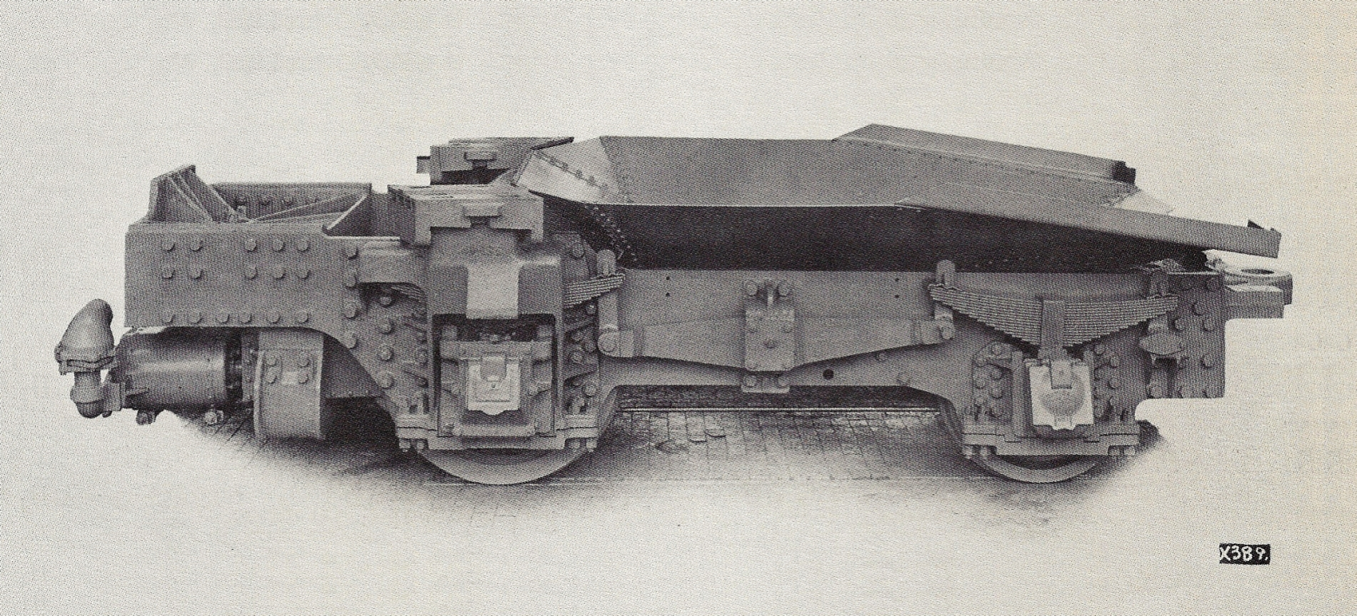 LIMA A-1 locomotive built-up frame trailing truck.